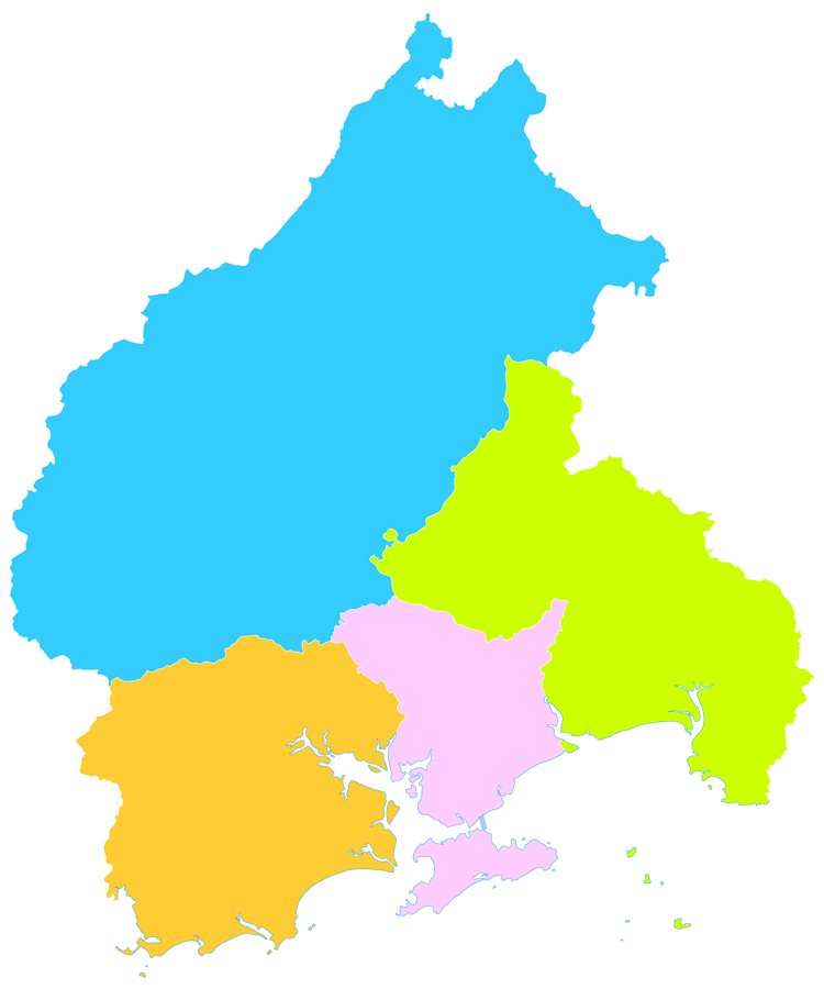 administrative division of Yangjiang City, Guangdong, China